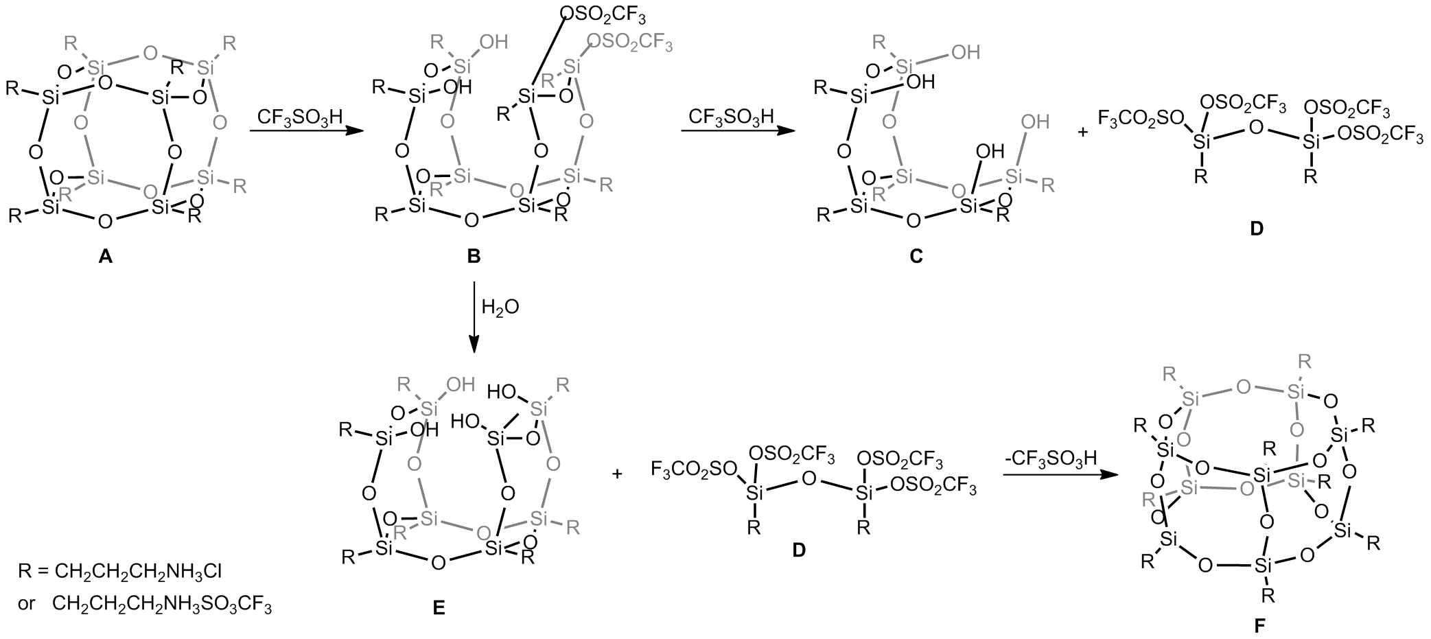 Reaction of OAS-POSS-Cl with CF3SO3H in DMSO containing water. B-E constitute intermediates isolated during A → F cage-rearrangement.